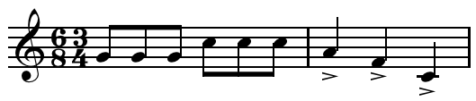 Alternating time signatures, example from Bernstein's West Side Story Category:Music images Created with Sibelius